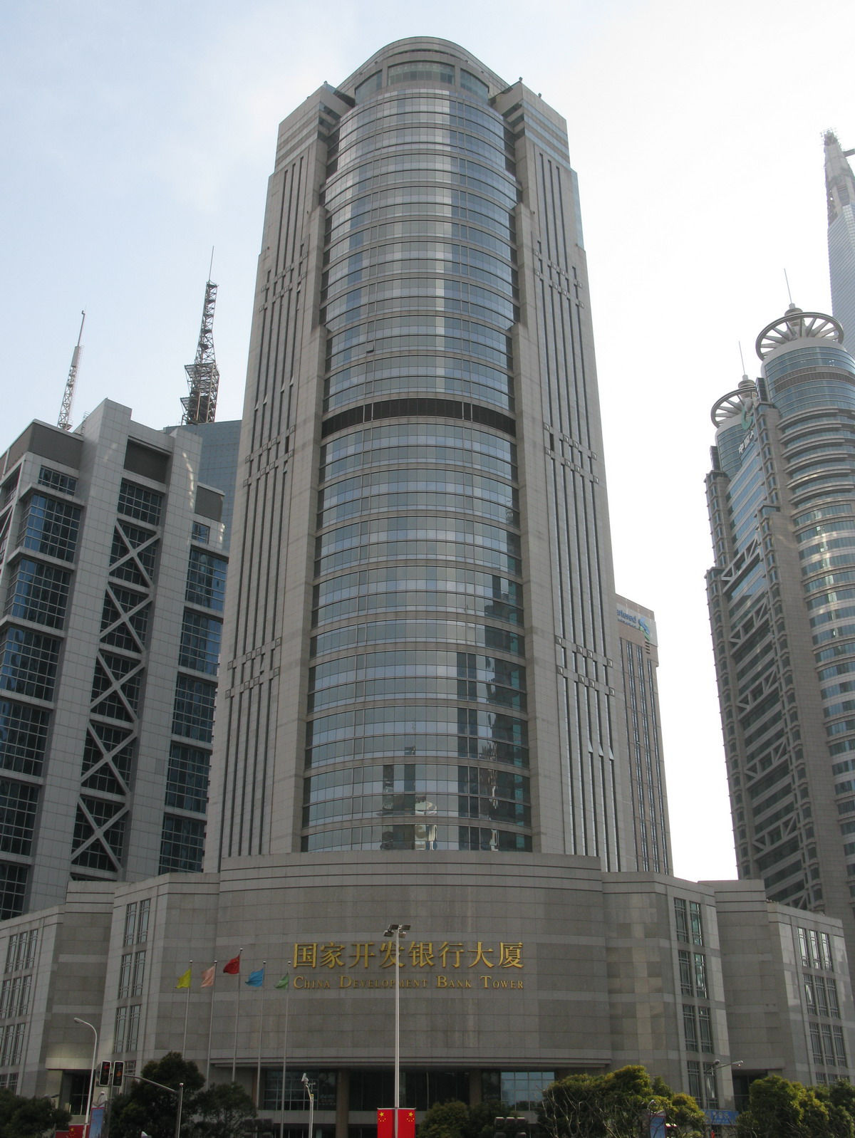 国家开发银行大厦 China Development Bank Tower